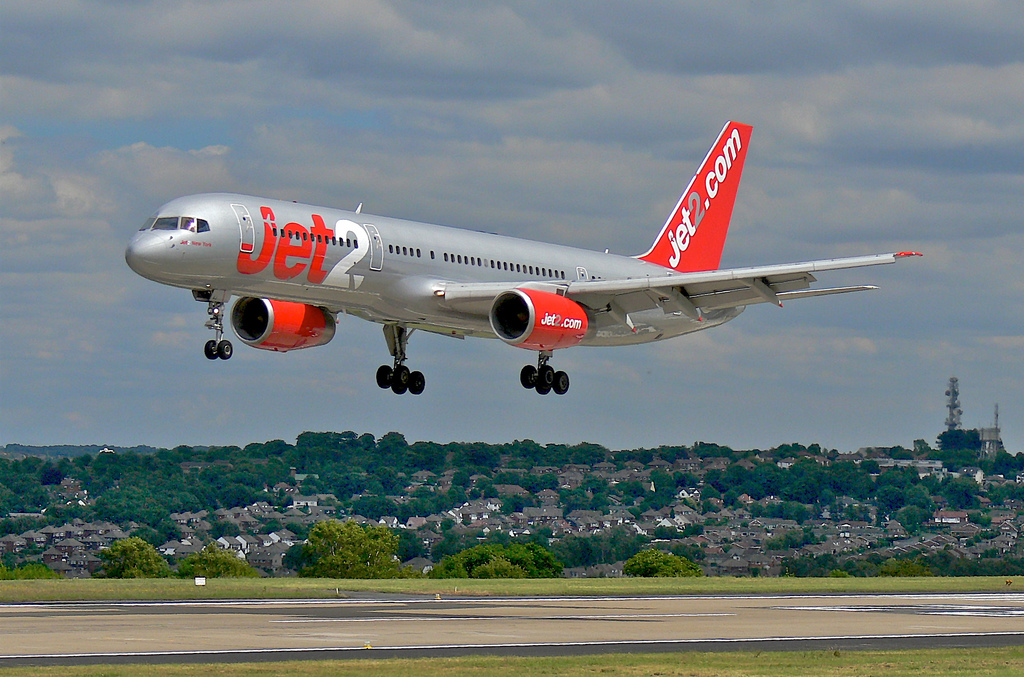 Boeing 757 G-LSAJ lands at Leeds Bradford Airport, UK